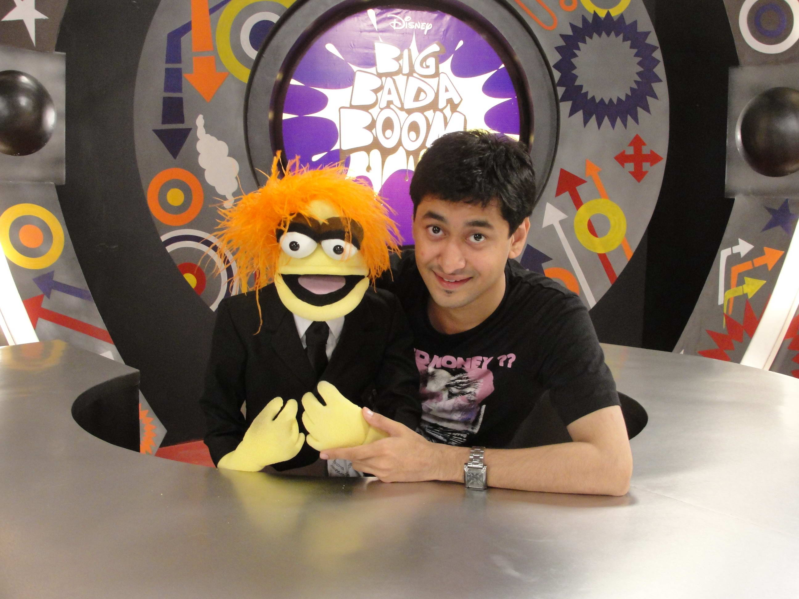 This photo shows Satyajit Padhye alongwith Bumpy Puppet.